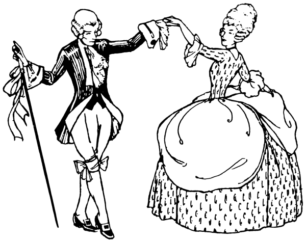 line art drawing of Minuet dance